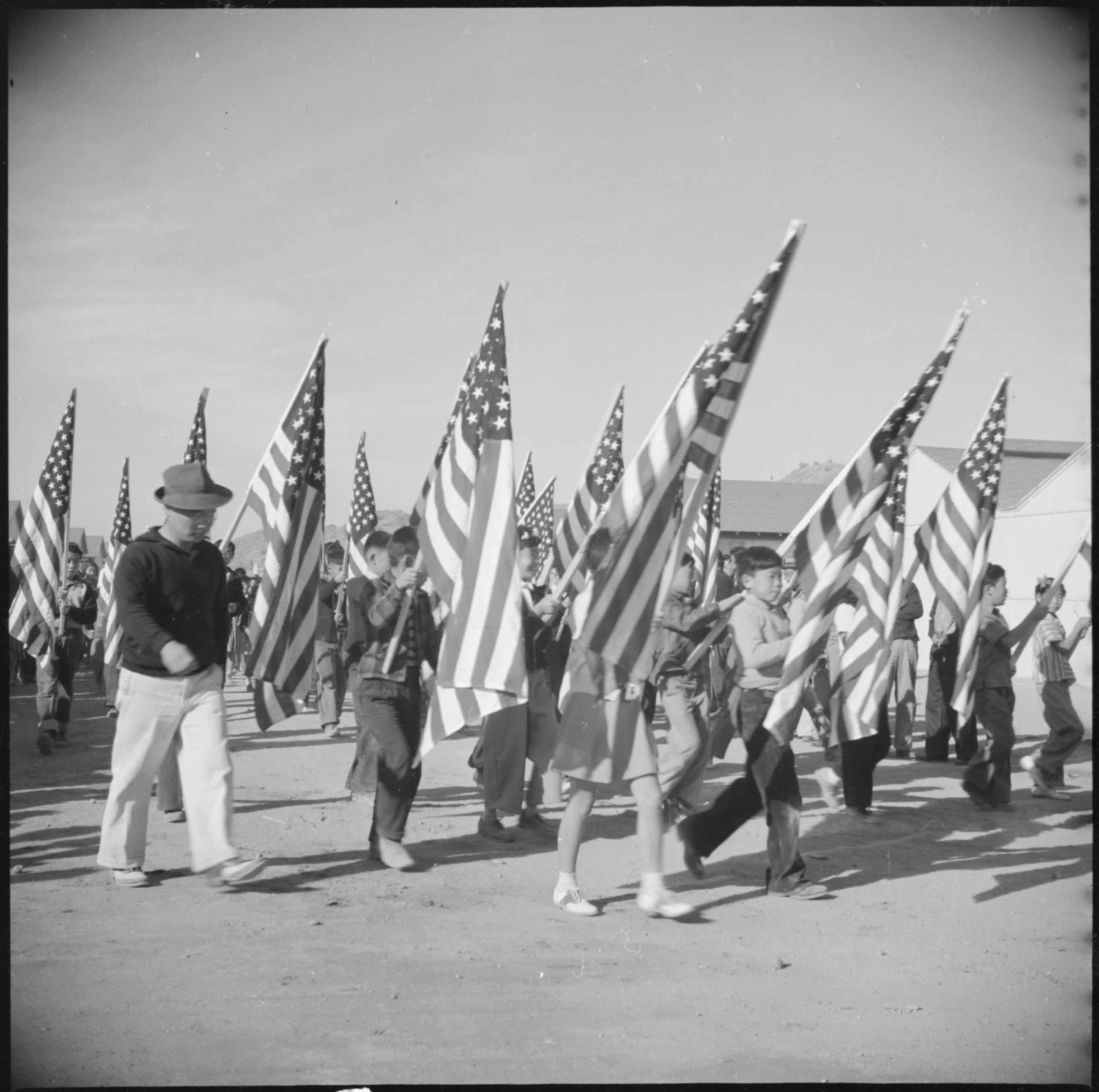 Scope and content: The full caption for this photograph reads: Gila River Relocation Center, Rivers, Arizona. A view of some of the school children who participated in the Harvest Festival Parade held at the Gila River Center on Thanksgiving Day.